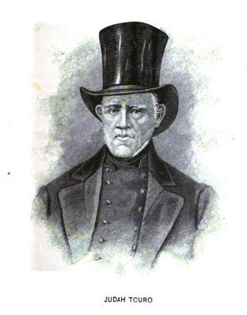 Judah Touro of Newport Rhode Island